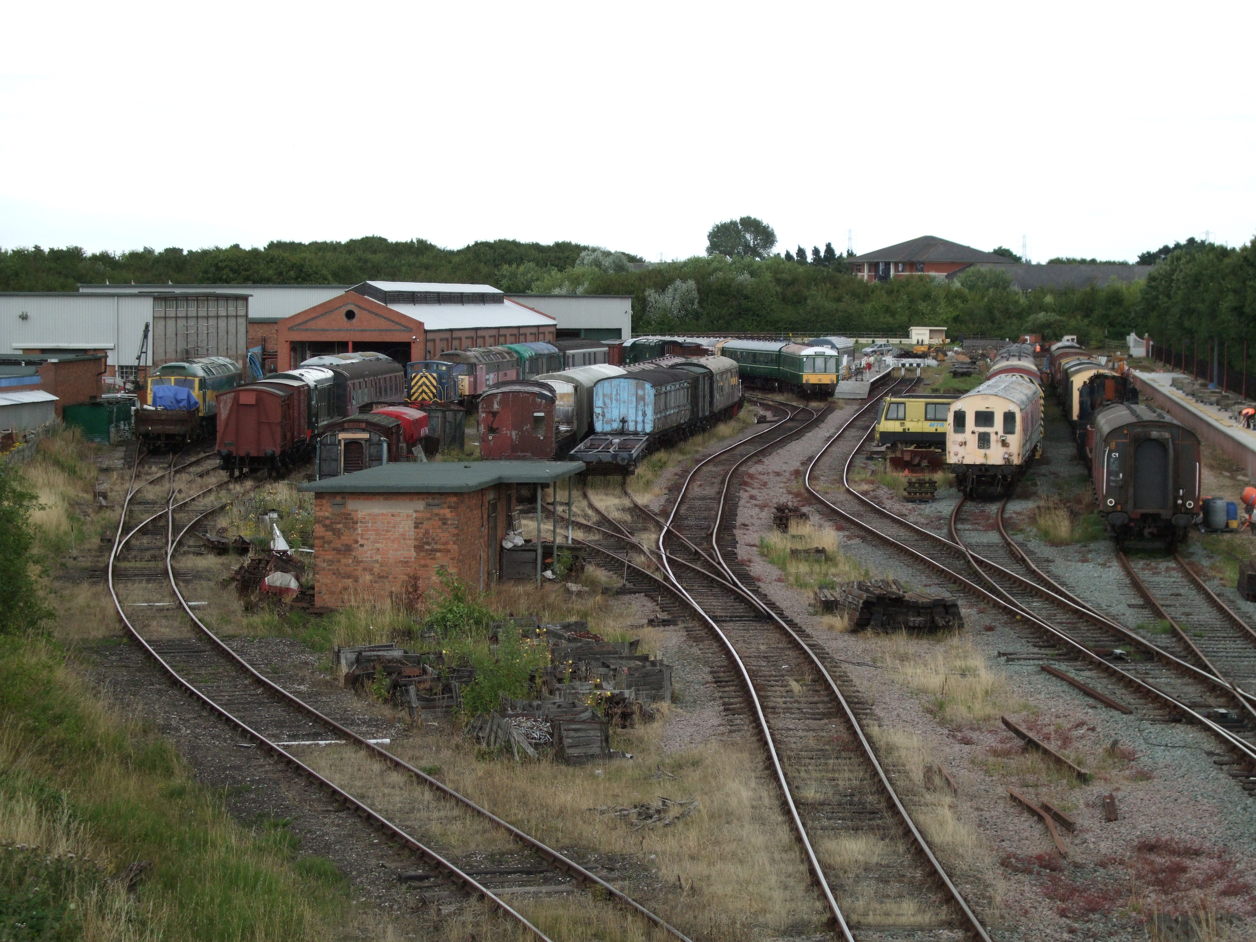 Transport Museum - Ruddington